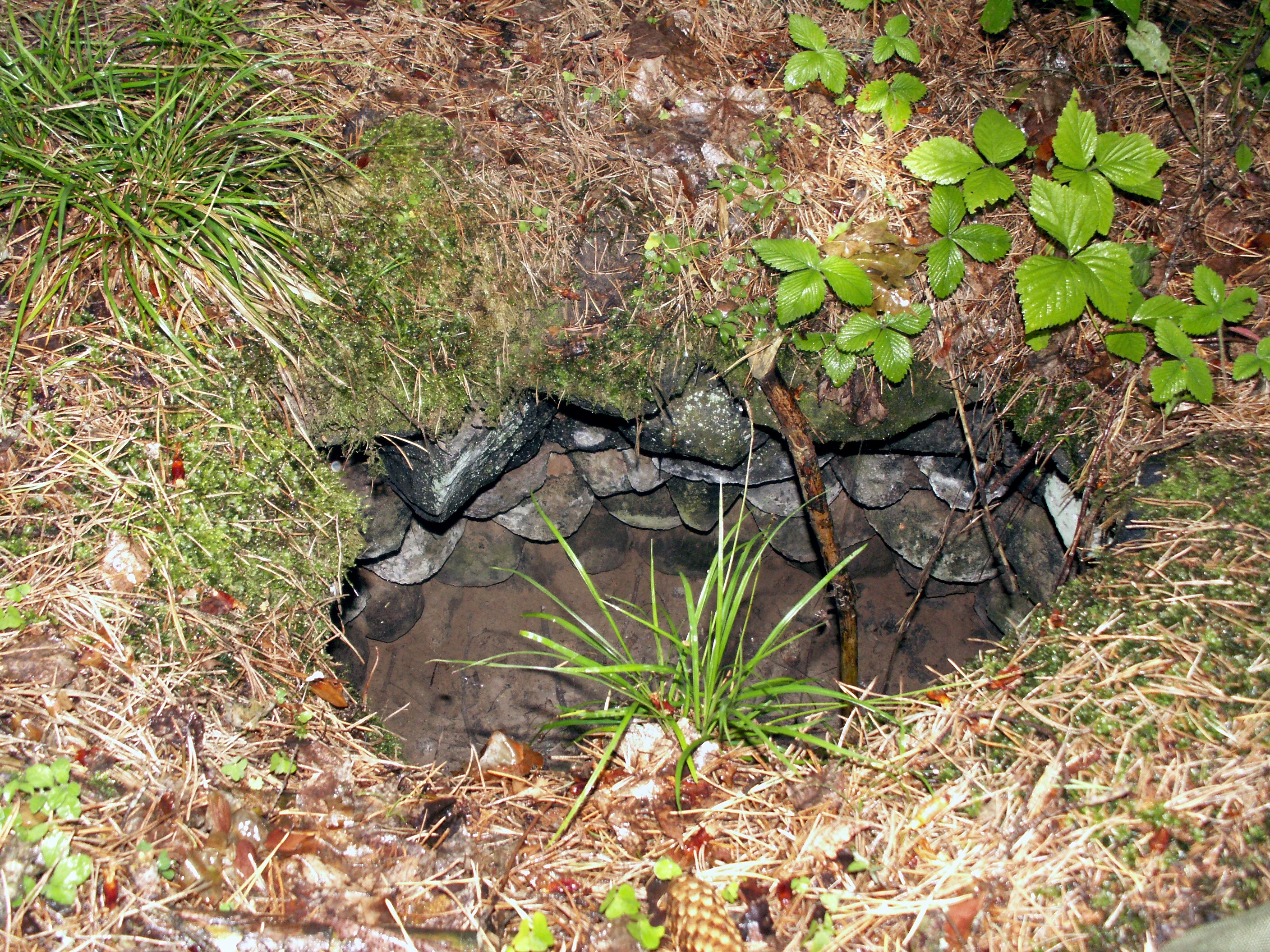 Tar kiln in Gailiškė, Kelmė district, Lithuania